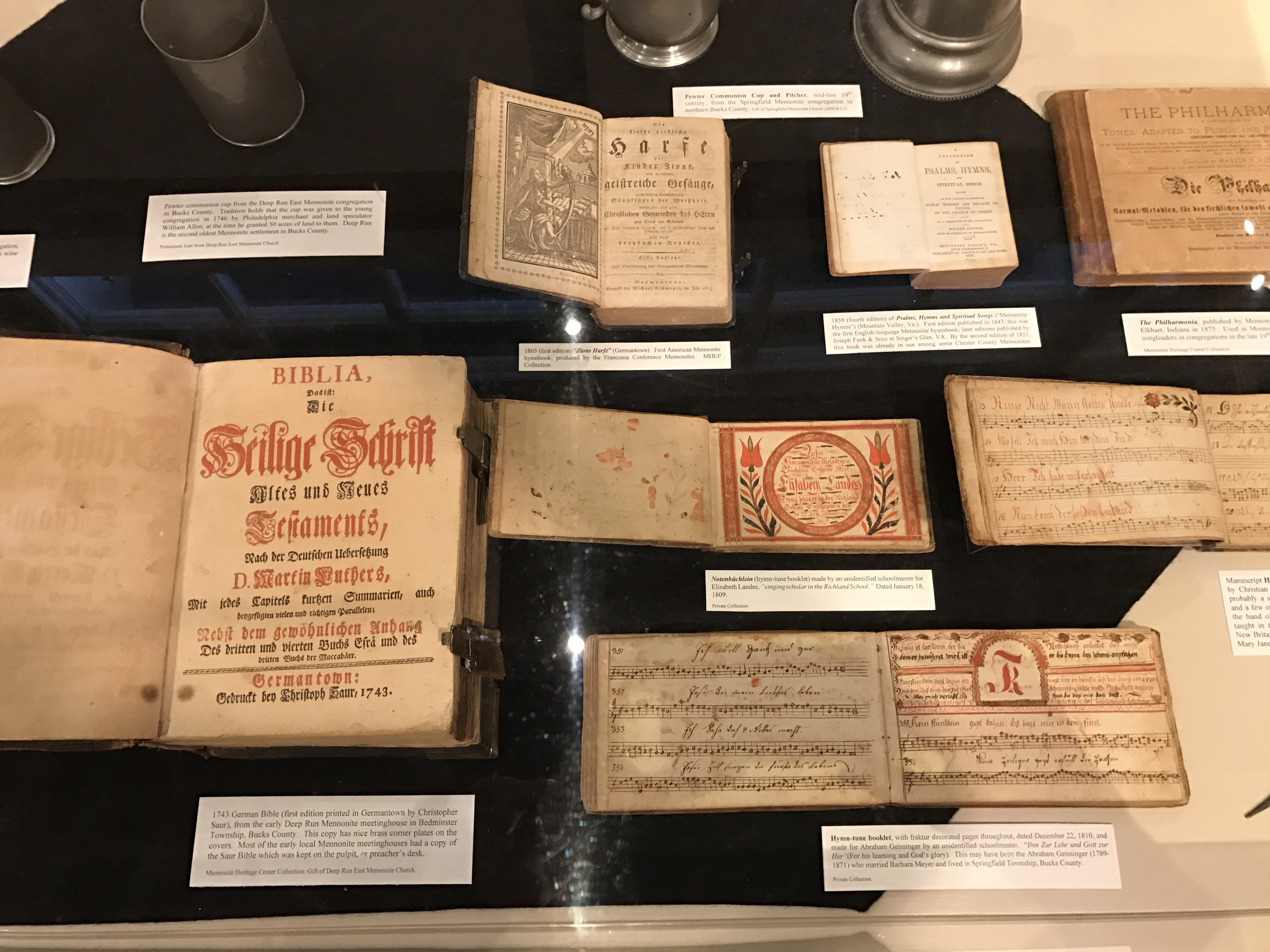 Bibles and hymnals at Mennonite Heritage Center, Harleysville, Pennsylvania